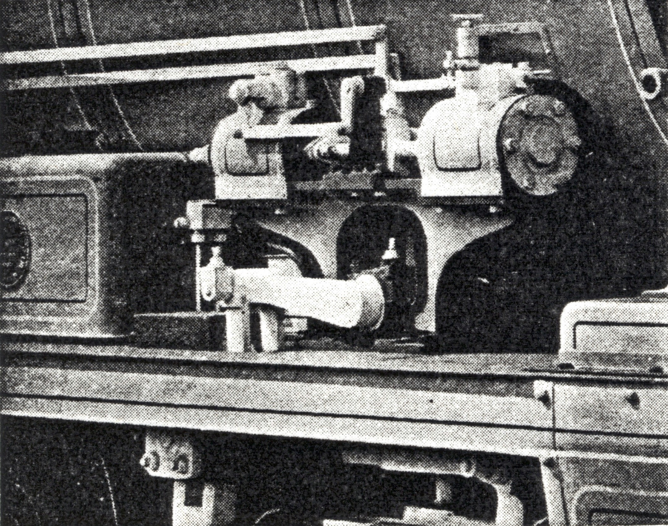 Hendrie's steam reverser on Class 1A 4-8-0 (ex Natal Government Railways)